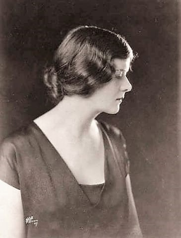 Ruth Donnelly